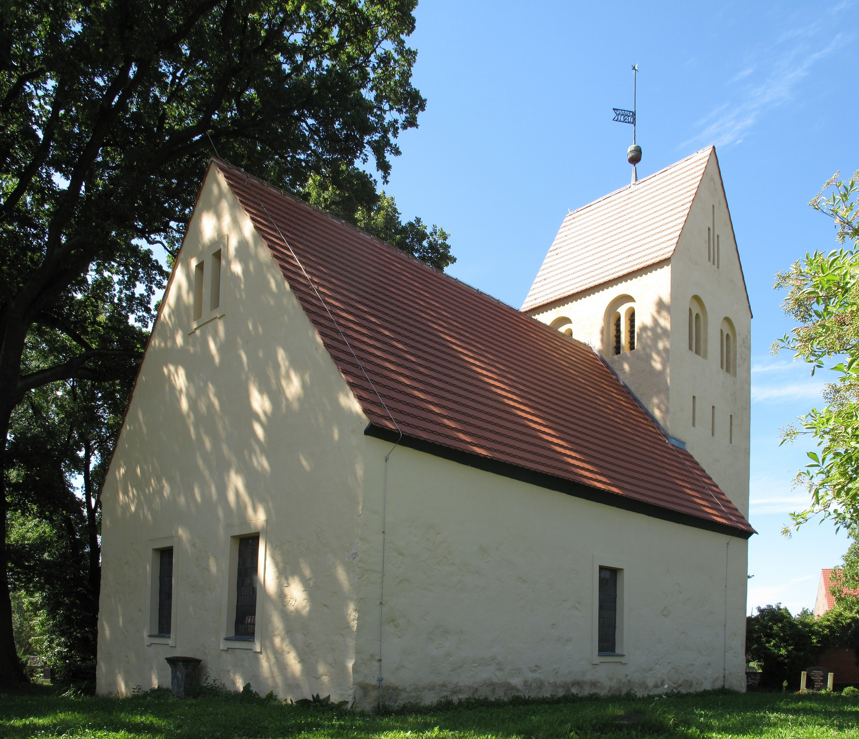 Listed village and Fieldstone church in Pritzhagen, a village of the municipality Oberbarnim in the District Märkisch-Oderland, Brandenburg, Germany. The church was built in the 14th/15th-century, but had been remodelled.